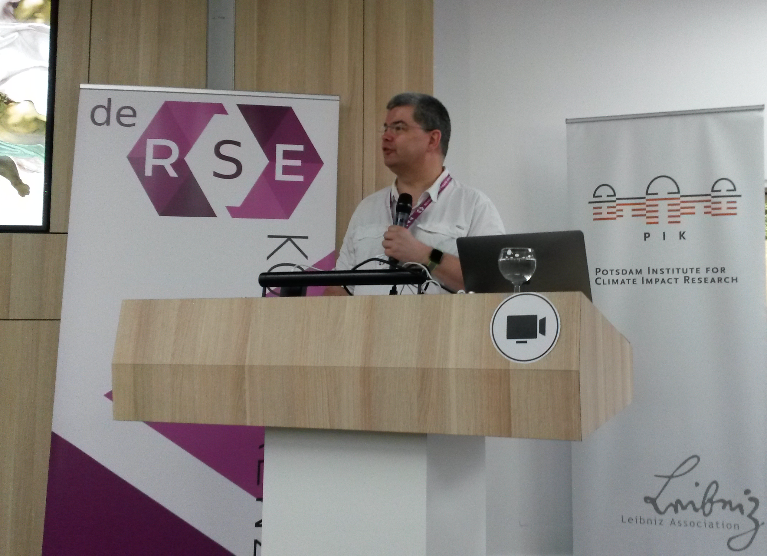 Andreas Zeller as keynote speaker at deRSE19 in Potsdam